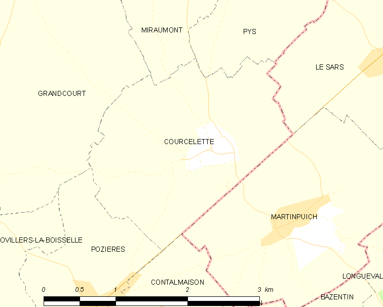 Map of French municipality Courcelette